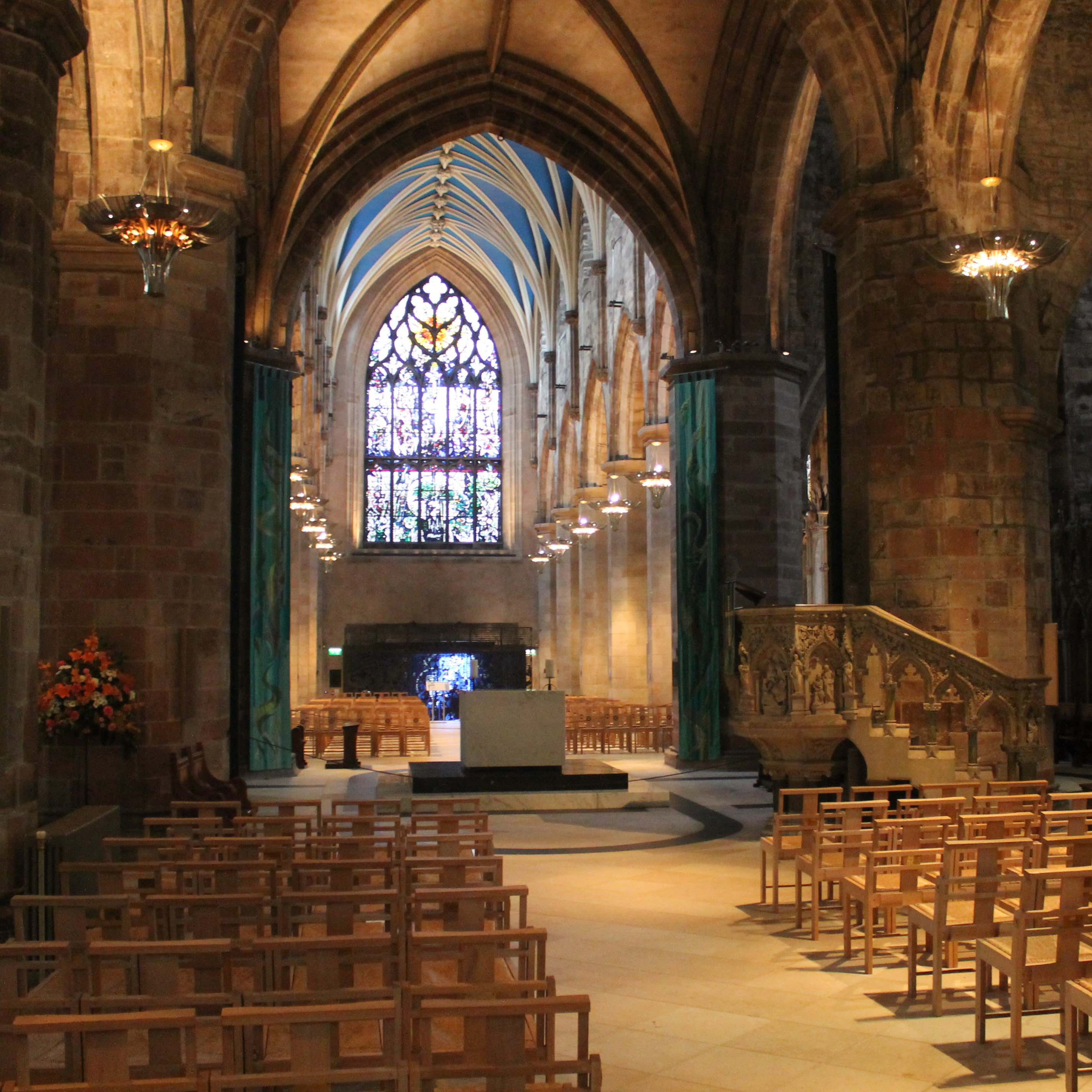 Interior of St Giles' Cathedral, Edinburgh, facing west. This shows how seats in the chancel and nave both face a central communion table next to the pulpit in the crossing.